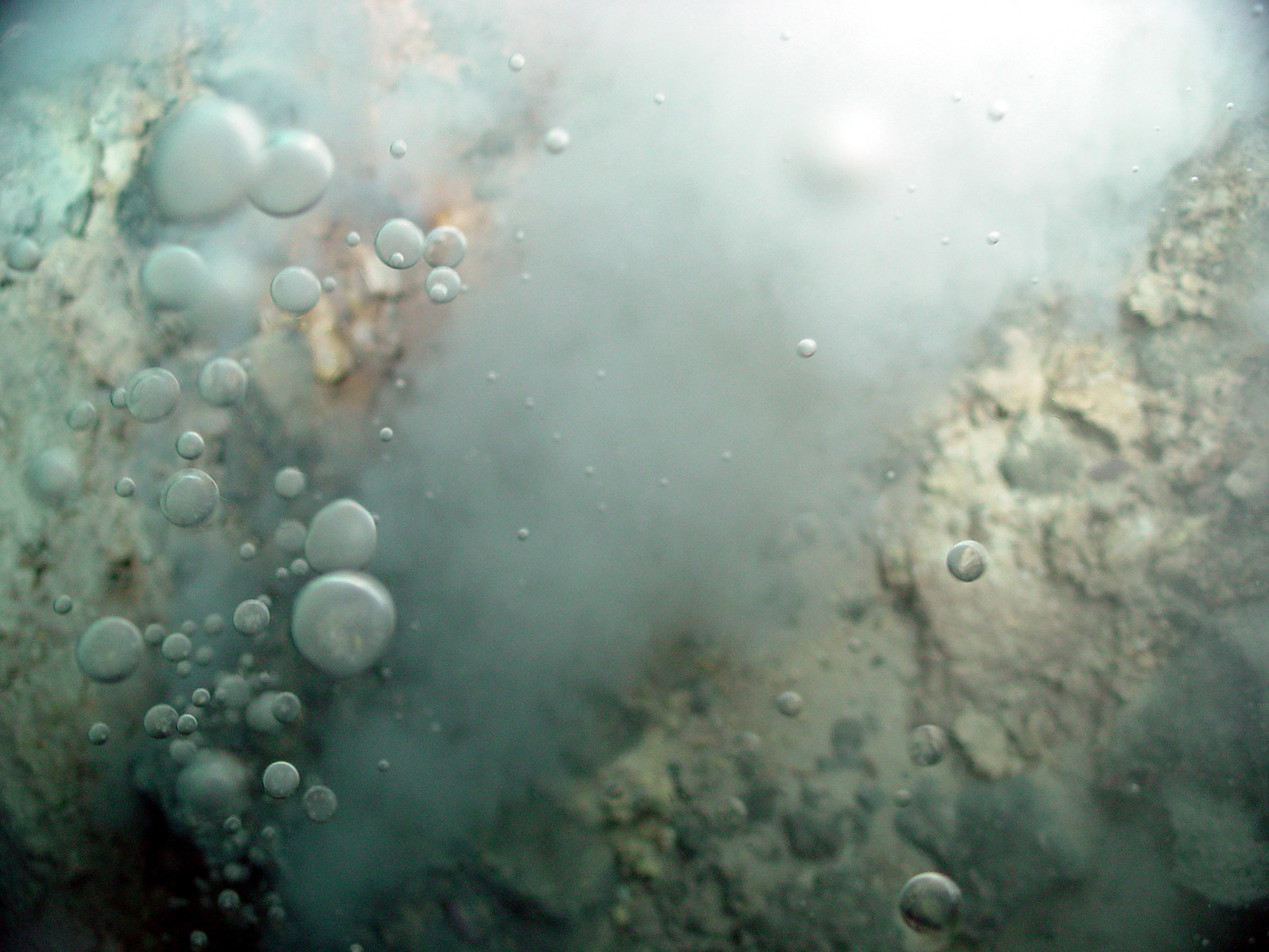 Close-up of bubbles at the Champagne vent site (Eifuku submarine volcano).